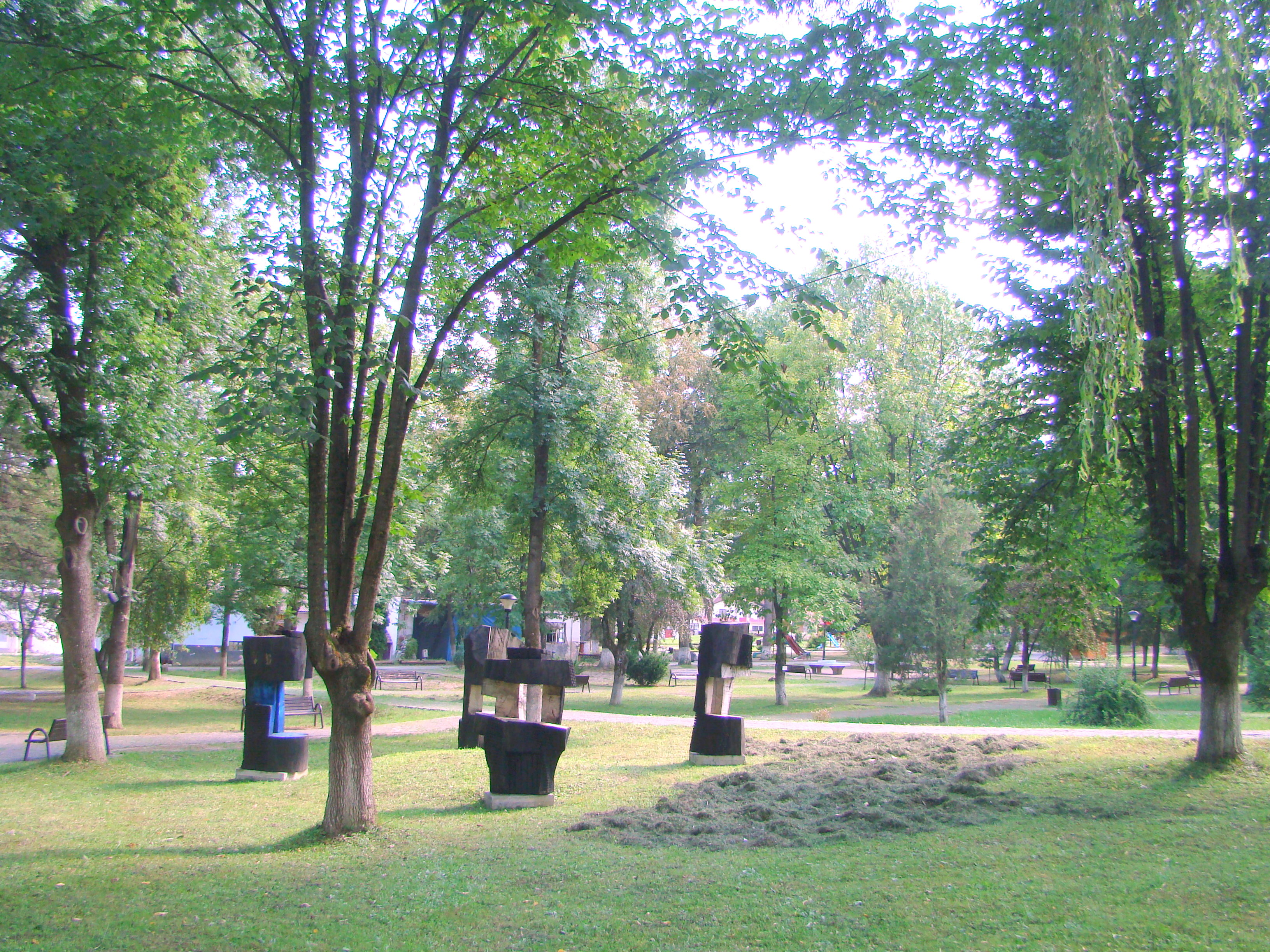 Sângeorz-Băi, Bistrița-Năsăud county, Romania